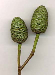 Italian Alder mature female catkins - photo MPF